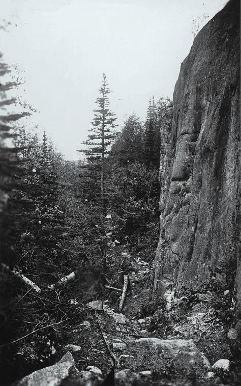 Photograph Dead Horse Trail, Alaska, about 1898, H. C. Barley, Silver salts on glass - Gelatin dry plate process - 17 x 12 cm